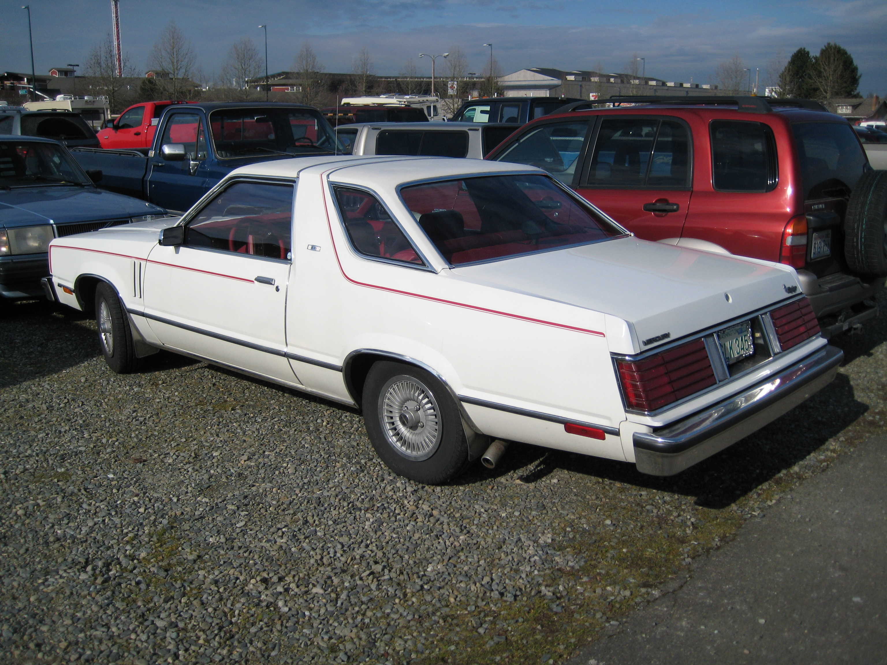 Rear 3/4 detail of Mercury Zephyr Z7 2-door coupe.